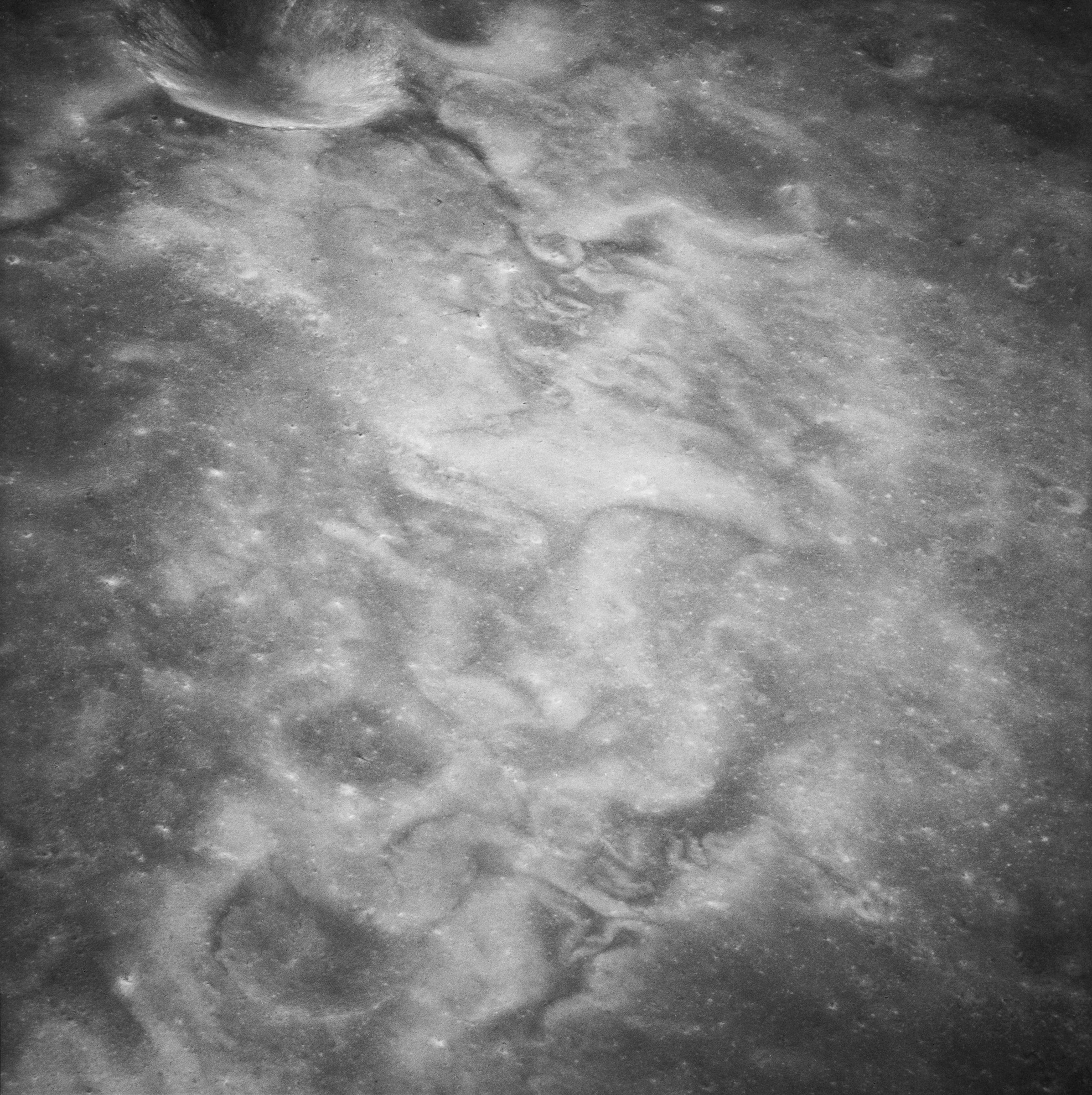 Oblique view of high-albedo swirls within unnamed crater east of Firsov, on the far side of the moon.